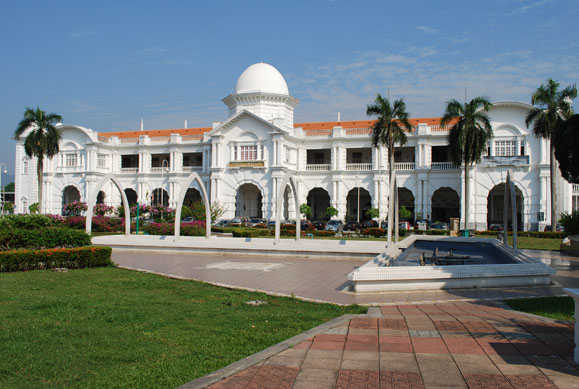 The Ipoh Railway Stations is affectionately known to locals at the Taj Mahal of Ipoh. An impressive landmark which combines Moorish architecture with modern embellishments designed by AB Hubback. The station was the second concrete building constructed in the town. This picture was taken at Ipoh Railway Station.